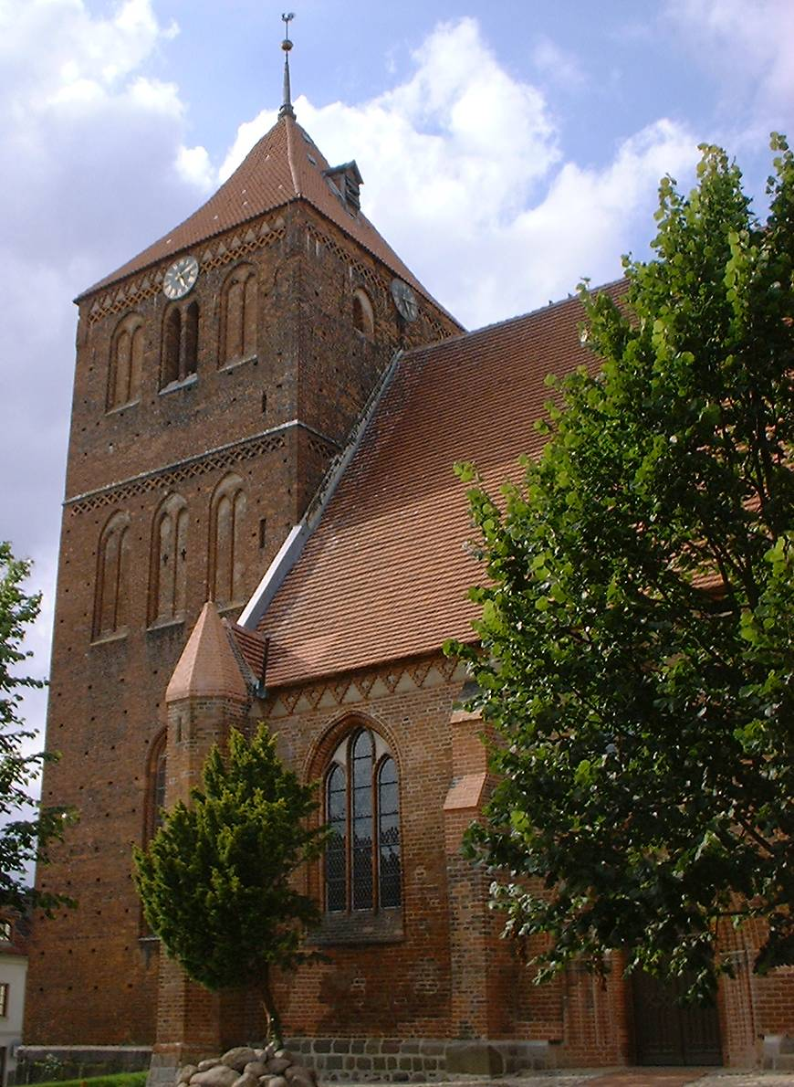 St. Peter and St. Paul's Church in Teterow in Mecklenburg-Western Pomerania, Germany